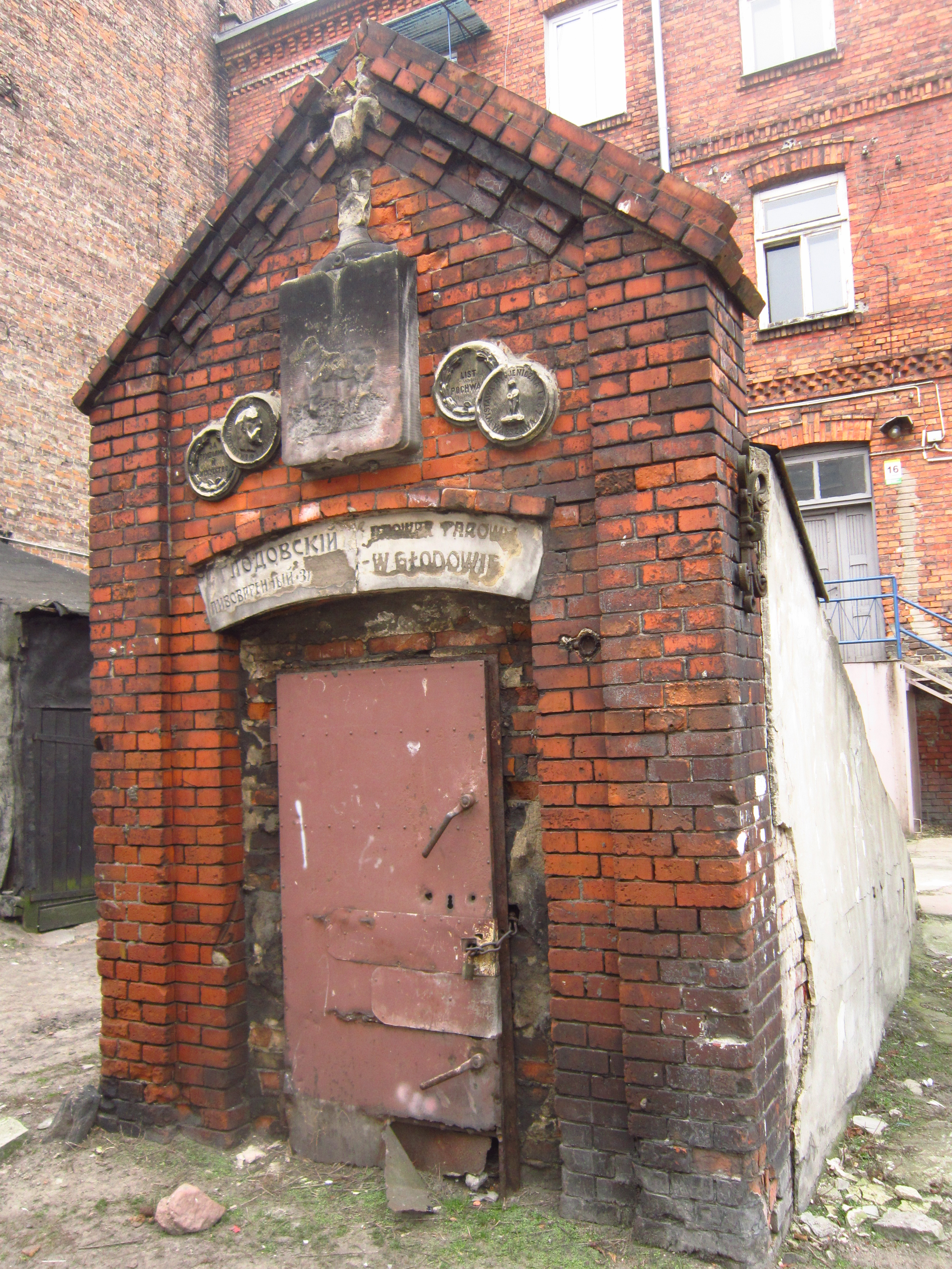 Browar parowy w Głodowie Illegible word is probably: завод (zawod). What's mean: Steam brewery in Głodowo.